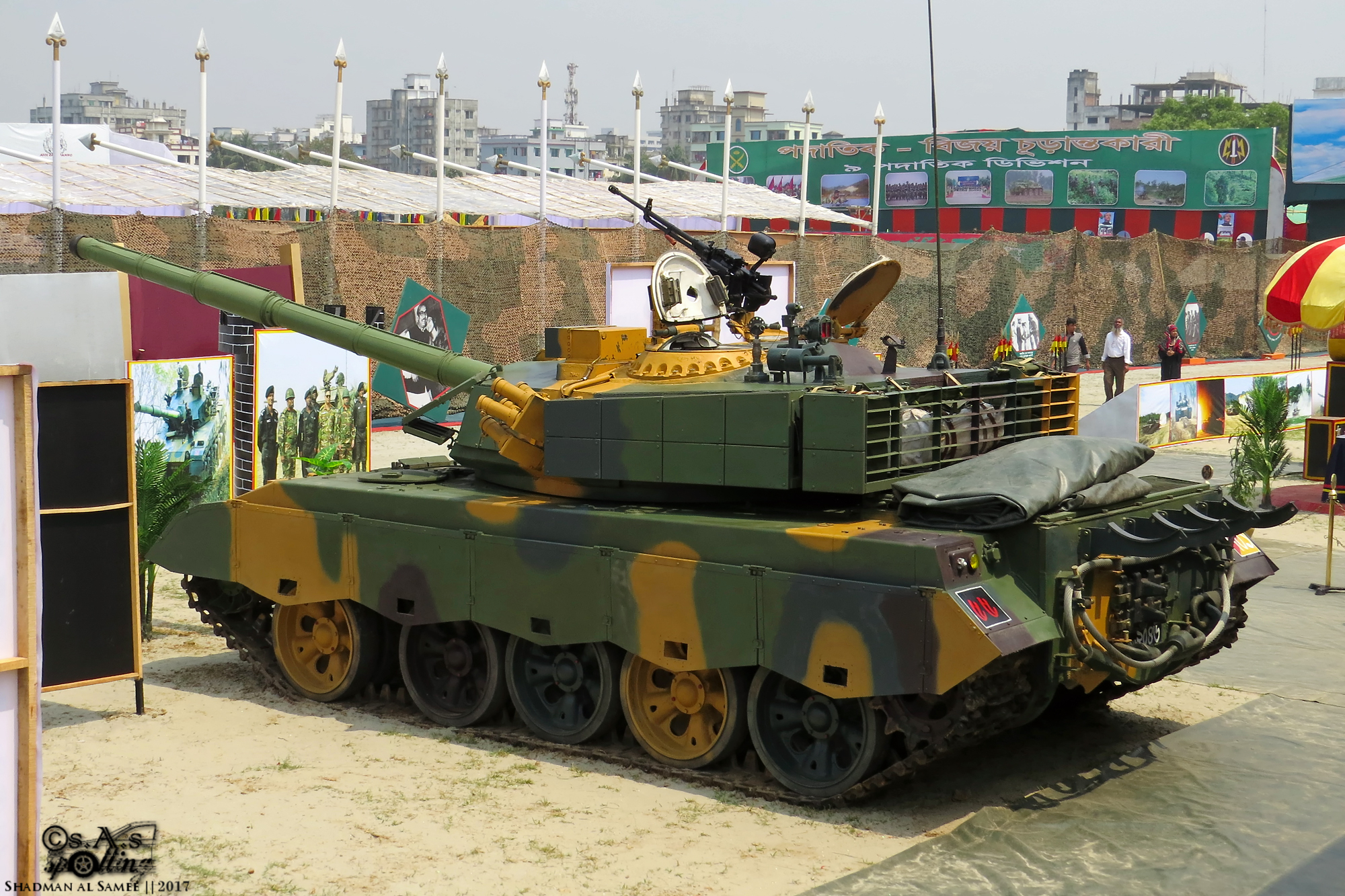 VGTJ/ MHD 2017: Mighty impressive!